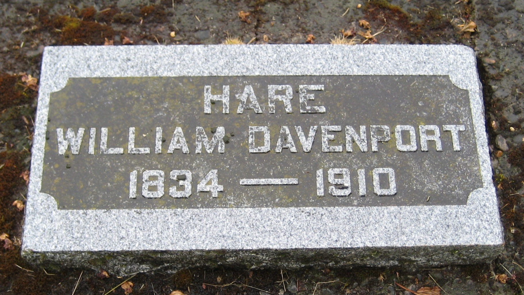 Grave marker of William D. Hare at Hillsboro Pioneer Cemetery, Oregon, USA.